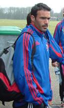 Israeli professional football (soccer) player, Kfir Edri.